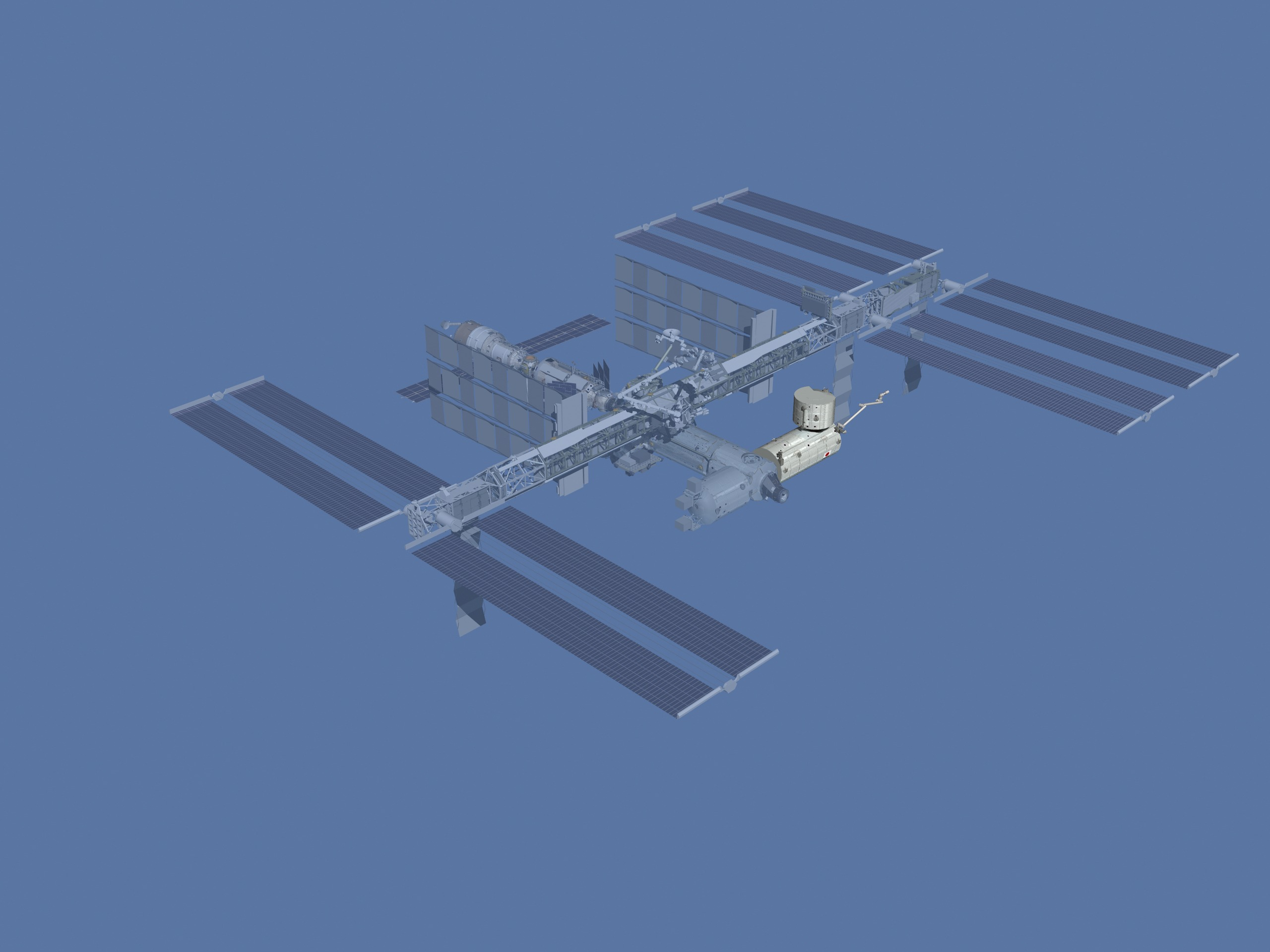 Computer-generated artist’s rendering of the International Space Station after flight 1J. Kibo Japanese Experiment Module Pressurized Module (JEM-PM) and Japanese Remote Manipulator System (JEM-RMS) are installed. JEM Pressurized Section is moved from Node 2 onto the JEM Pressurized Module. (Credit: NASA)